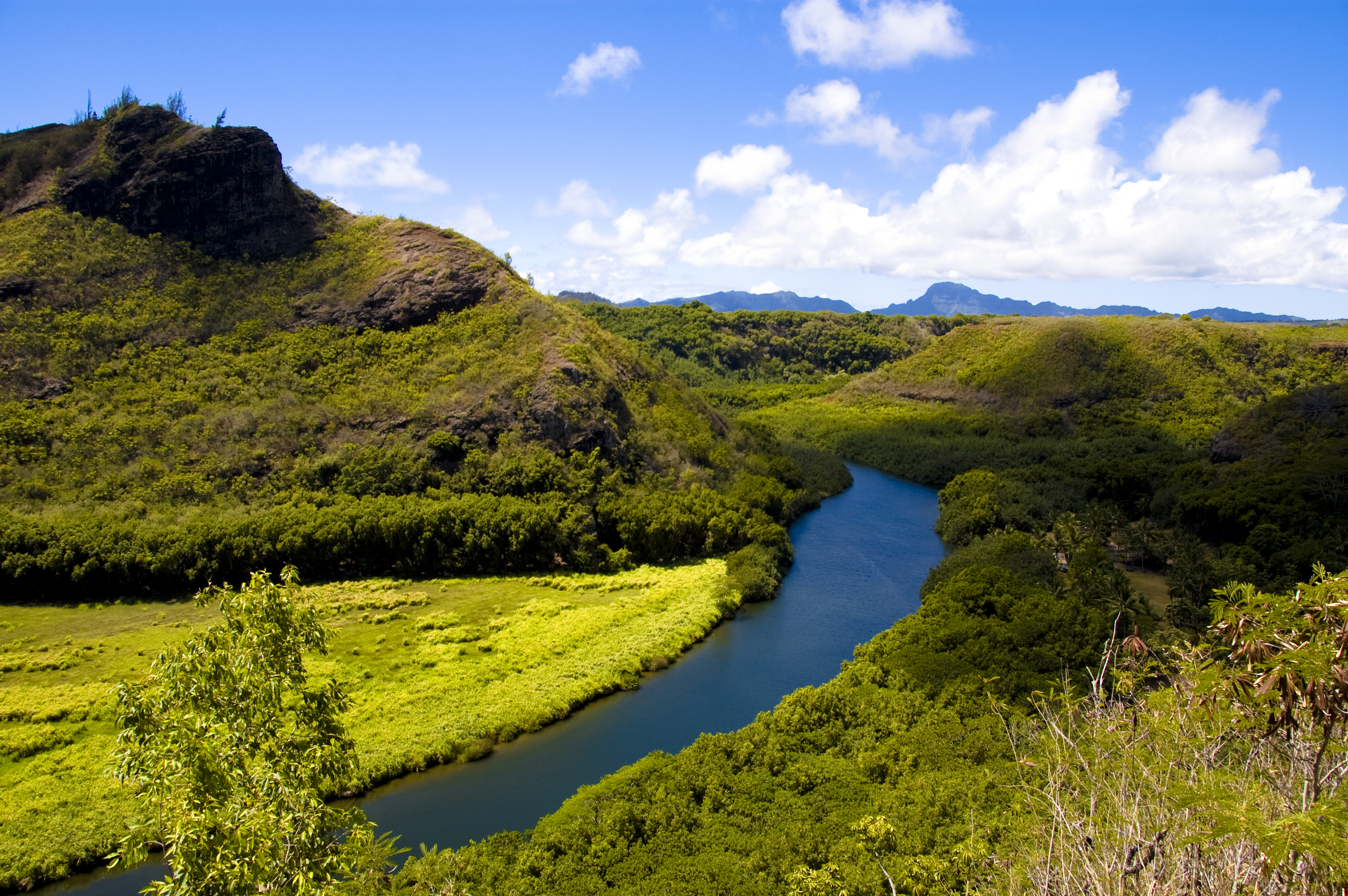 Wailua River, Wailua River State Park — Kauai. "They filmed "Raider's of the Lost Ark" down there in the green patch on the other side of the river."